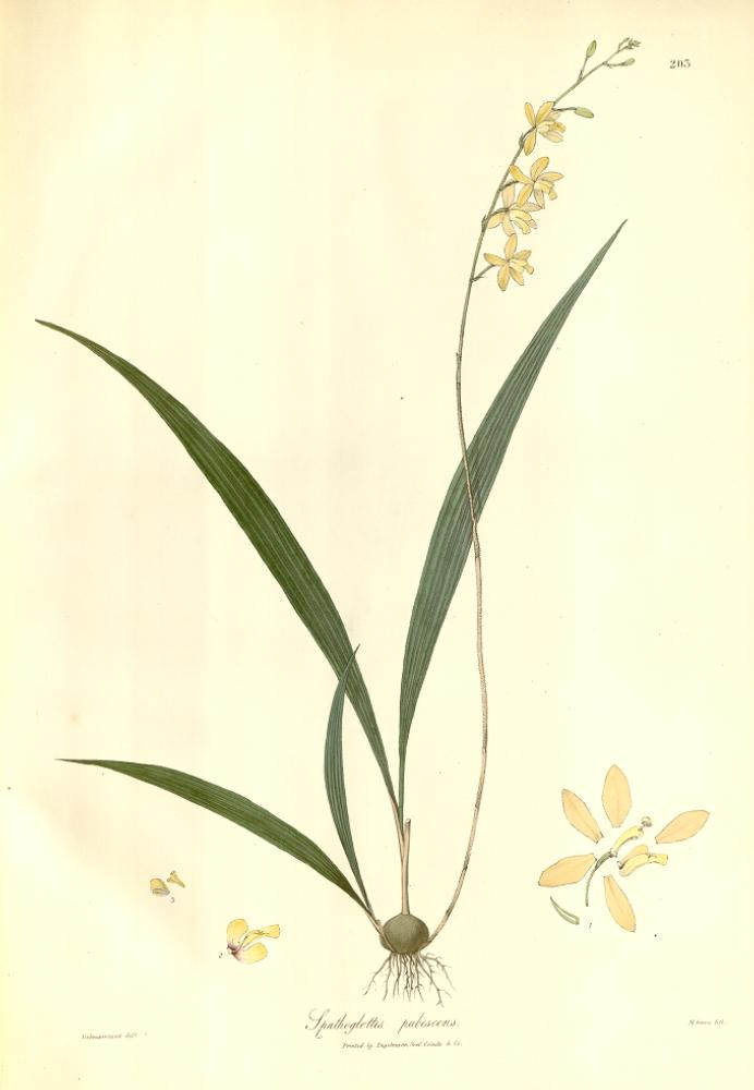 Illustration of Spathoglottis pubescens